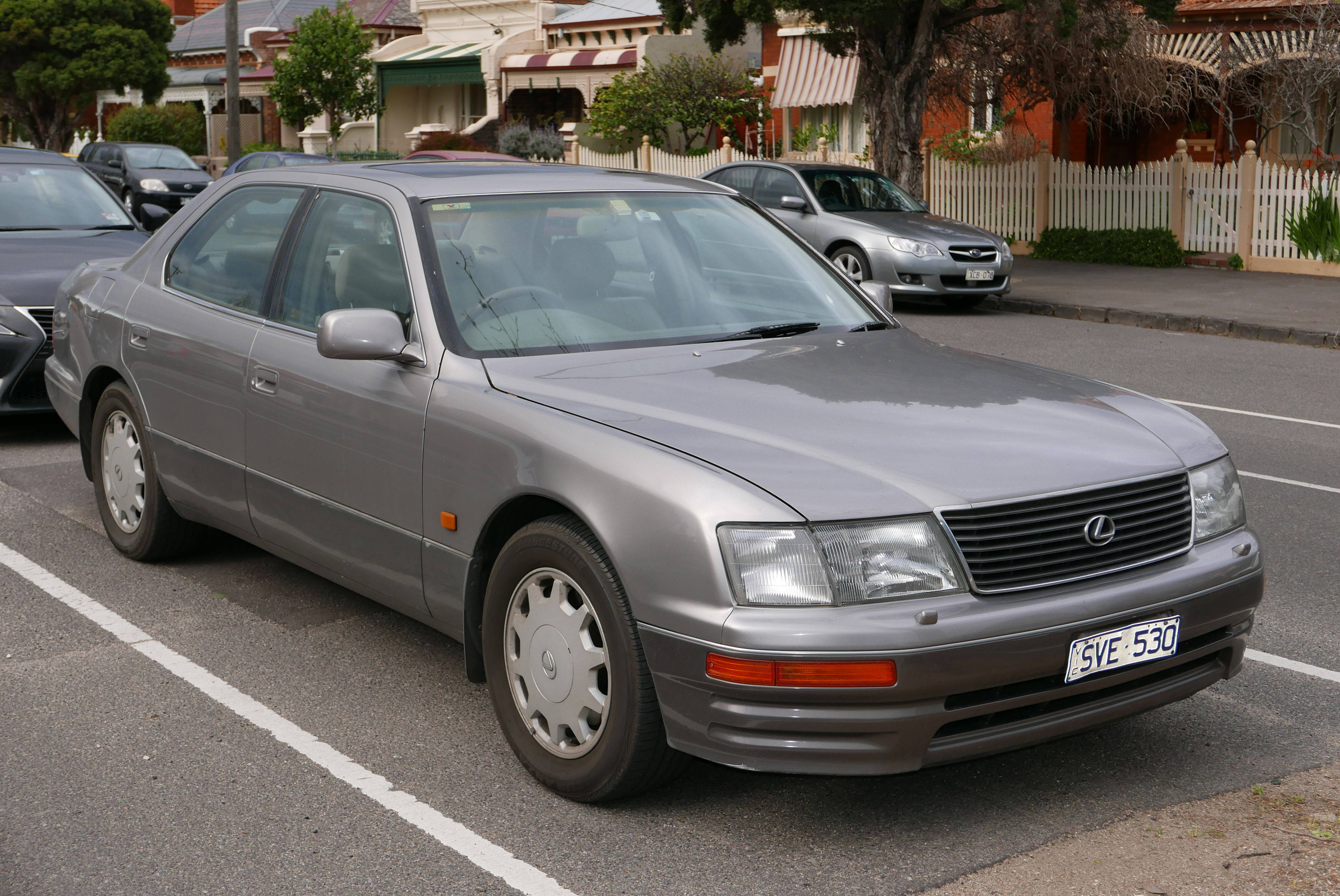 1995 Lexus LS 400 (UCF20R) sedan. Despite the date discrepancy between the description and the vehicle registration information below, a check of the VIN reveals a build date of September 1995. Photographed in Fitzroy North, Victoria, Australia. Vehicle registration enquiry results Jurisdiction Victoria Registration SVE530 Chassis code JT753UF2000040225 Engine code 1UZ0554960 Compliance date 1996-01 Year of manufacture 1996